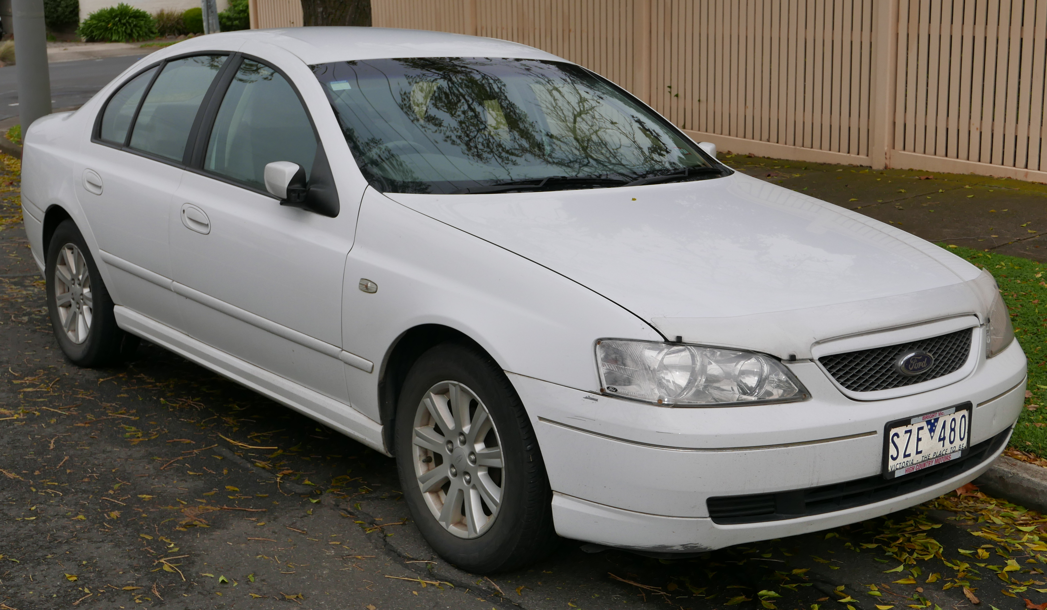 2004 Ford Falcon (BA) Futura sedan. Photographed in Ivanhoe, Victoria, Australia. Vehicle registration enquiry resultsJurisdictionVictoriaRegistrationSZE480Chassis code6FPAAAJGSW4D39169Engine codeJGSW4D39169Compliance date2004-07Year of manufacture2004